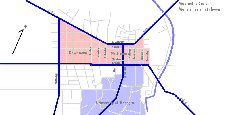 Map of downtown Athens, Georgia